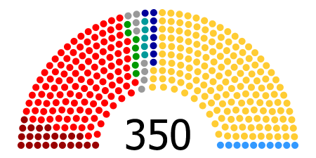 Congress of Deputies, low house of the Spanish parliament after 1979 general election.